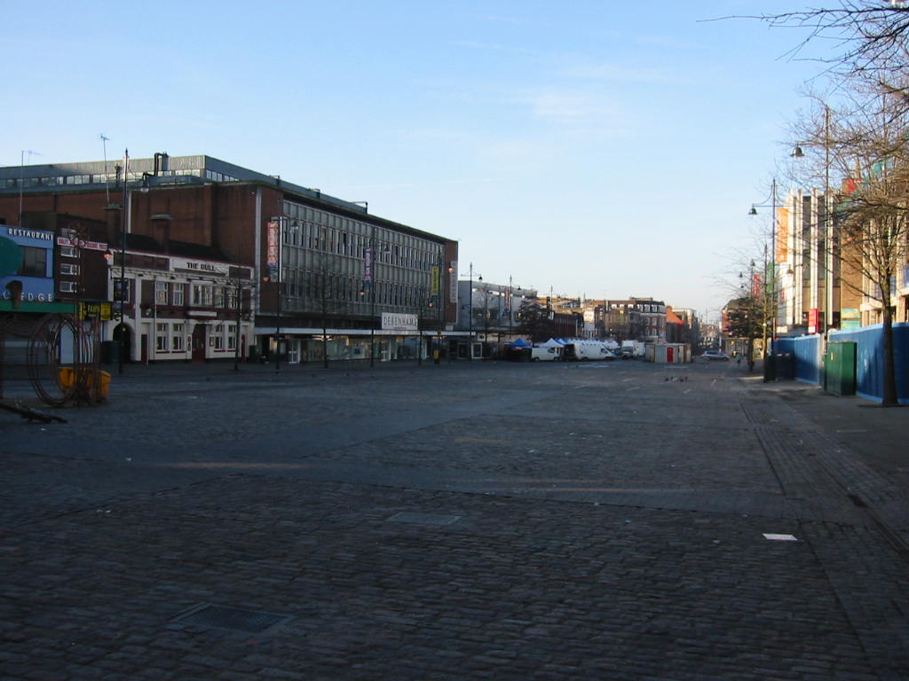 The market place at Romford, London.